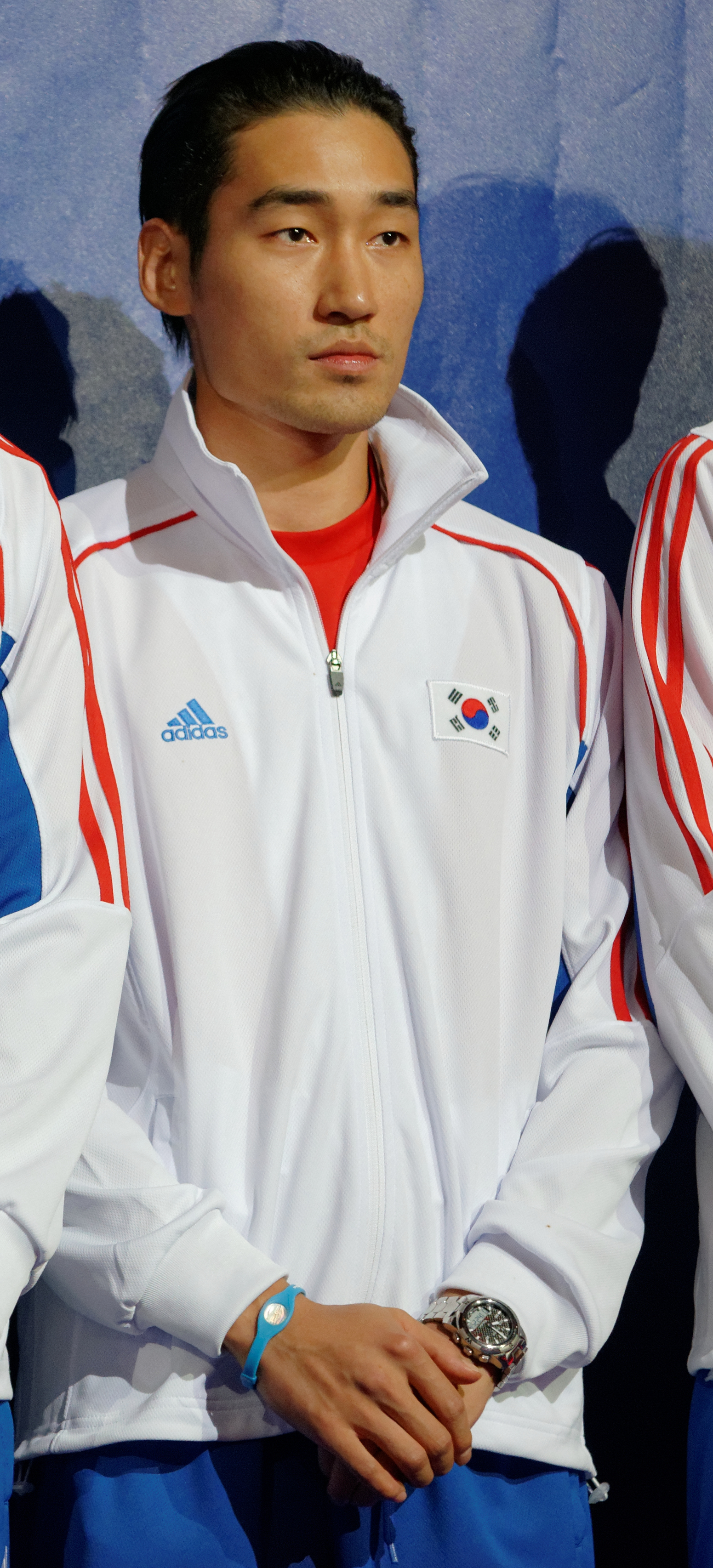 Korea men's sabre team (Gu Bon-gil, Kim Jung-hwan, Oh Eun-seok, Won Jun-ho) stand on the podium of the 2013 World Fencing Championships 2013 at Syma Hall in Budapest, 10 August 2013.